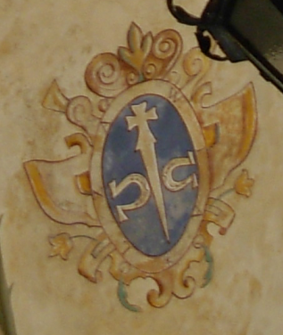 Czewoja coat of arms (Lzawa), in Baranow-Sandomierski castle. Detail of Image:Baranów Sandomierski - castle 11.JPG full resolution, by User:Piotrus and tagged with the same “self2.GFDL.cc-by-sa-2.5,2.0,1.0” license.